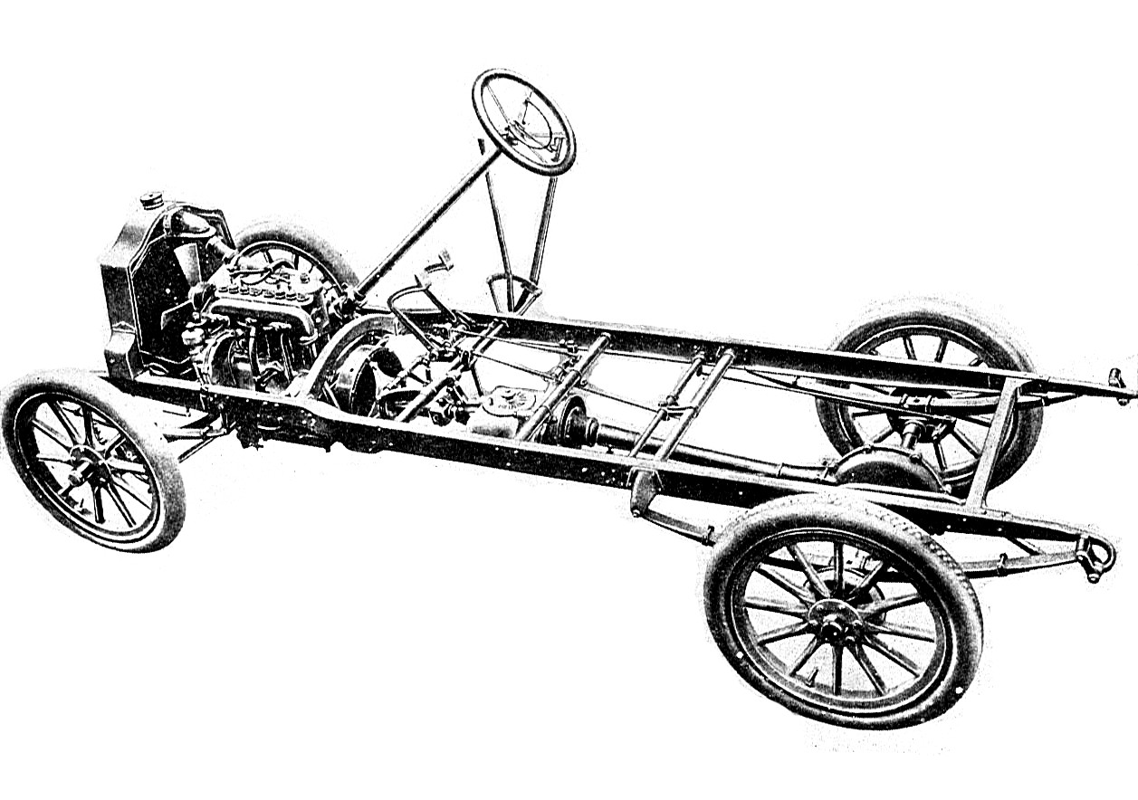 Fig. 243 De Dion chassis Scans from 'The Book of the Motor Car', Rankin Kennedy C.E., 1912 See other images from this source in Scans from 'The Book of the Motor Car'